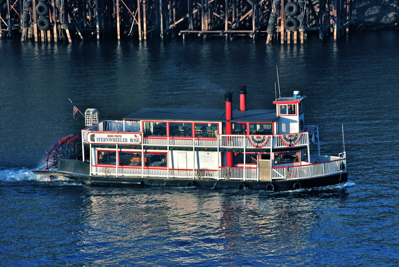 The sternwheeler Rose paddling upstream (south) on the Willamette River, in Portland, just north of the Steel Bridge.